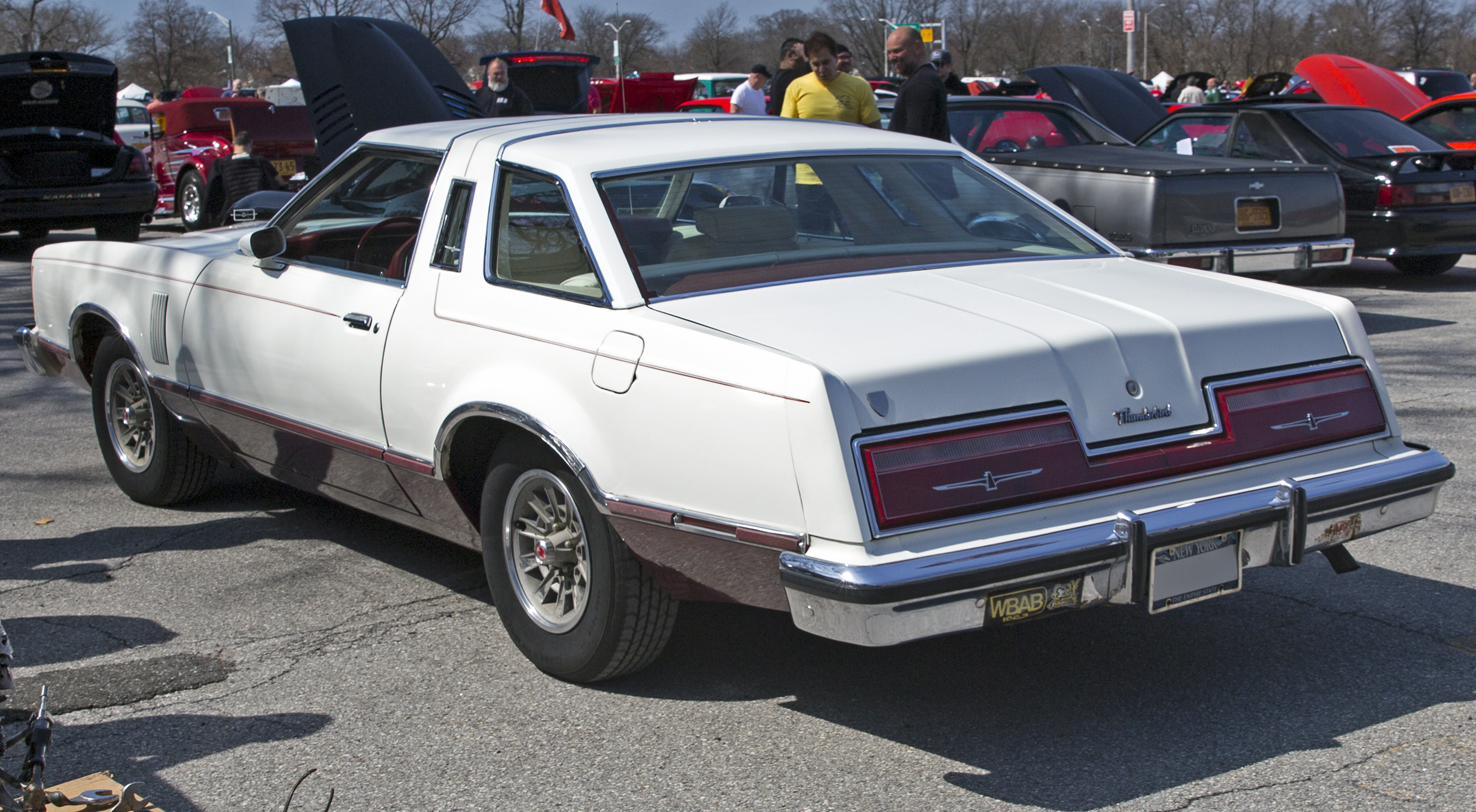 A 1977 Ford Thunderbird at the Belmont Race Track. Built in Chicago, 351 2-barrel V8.